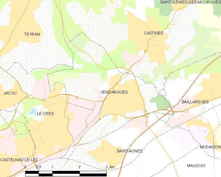 Map commune FR insee code 34327.png - Vendargues